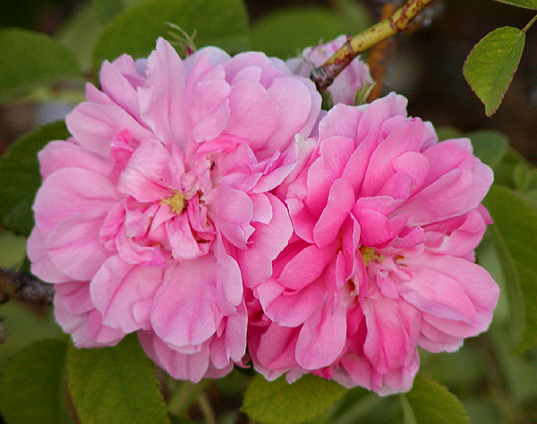 Photo of Rosa 'Quatre Saisons' at the San Jose Heritage Rose Garden